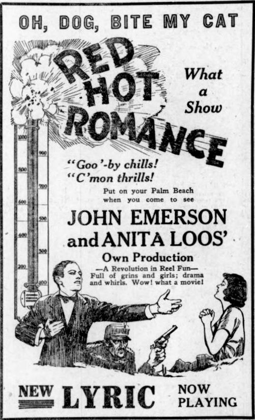 Newspaper advertisement for the American film Red Hot Romance (1922) with May Collins and Basil Sydney, on page 5 of the April 1, 1922 Duluth Herald.